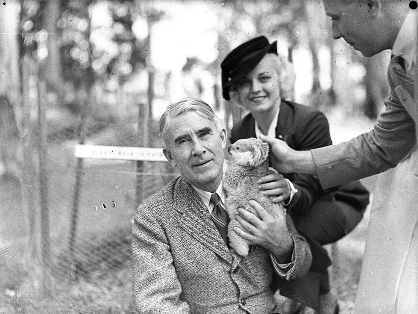 This image shows a photograph[1] of Zane Grey taken prior to 1939. Under Australian law, all photographs taken in Australia before 1955 are in the public domain. This image is in the public domain under both Australian copyright law and US copyright law.